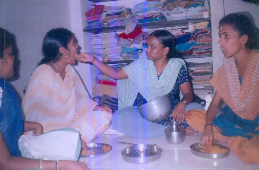 South Asian female friends of Indian Origin sharing lunch